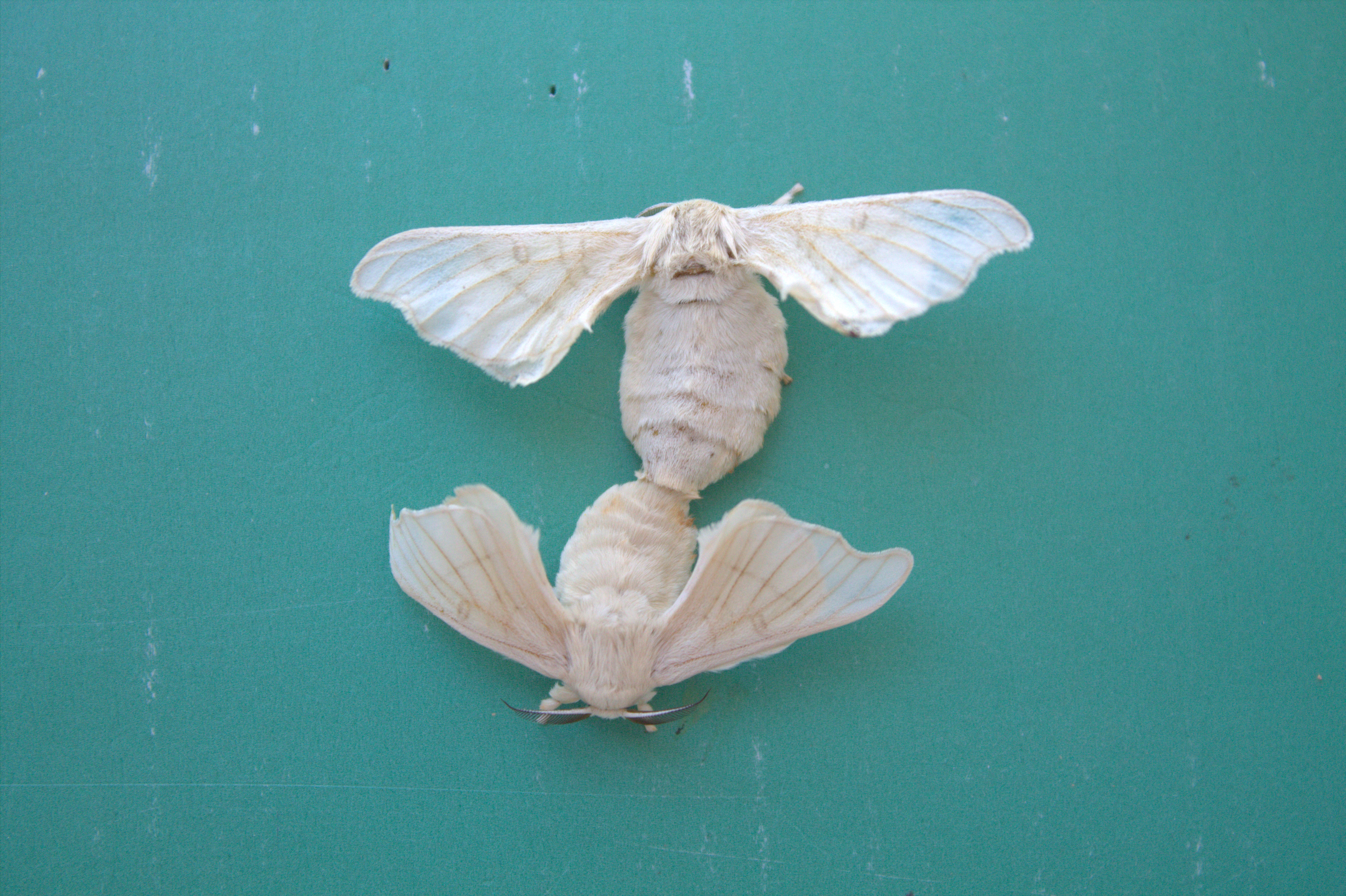 פרפרי טוואי המשי